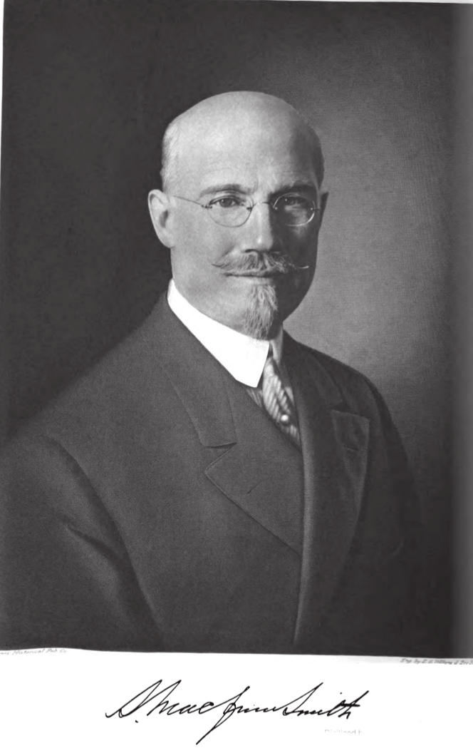 Seth MacCuen Smith (March 6, 1863 – ?) was a physician, scientist and authors.